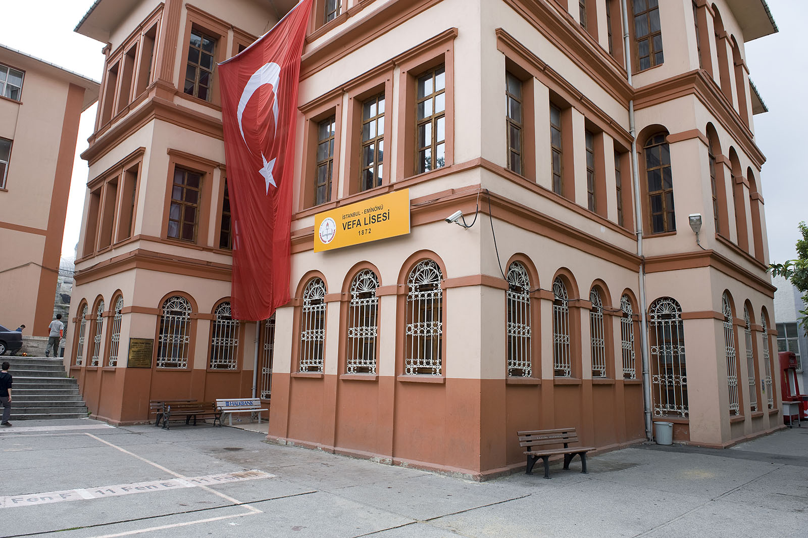 Vefa Lisesi in the Vefa district dates from 1872 and – I was told – was the first school of this kind in Istanbul, famous for the quality of its teaching. To the south there is a part where the school grounds touch the grounds of the Şezade Mosque, with some fine old houses.